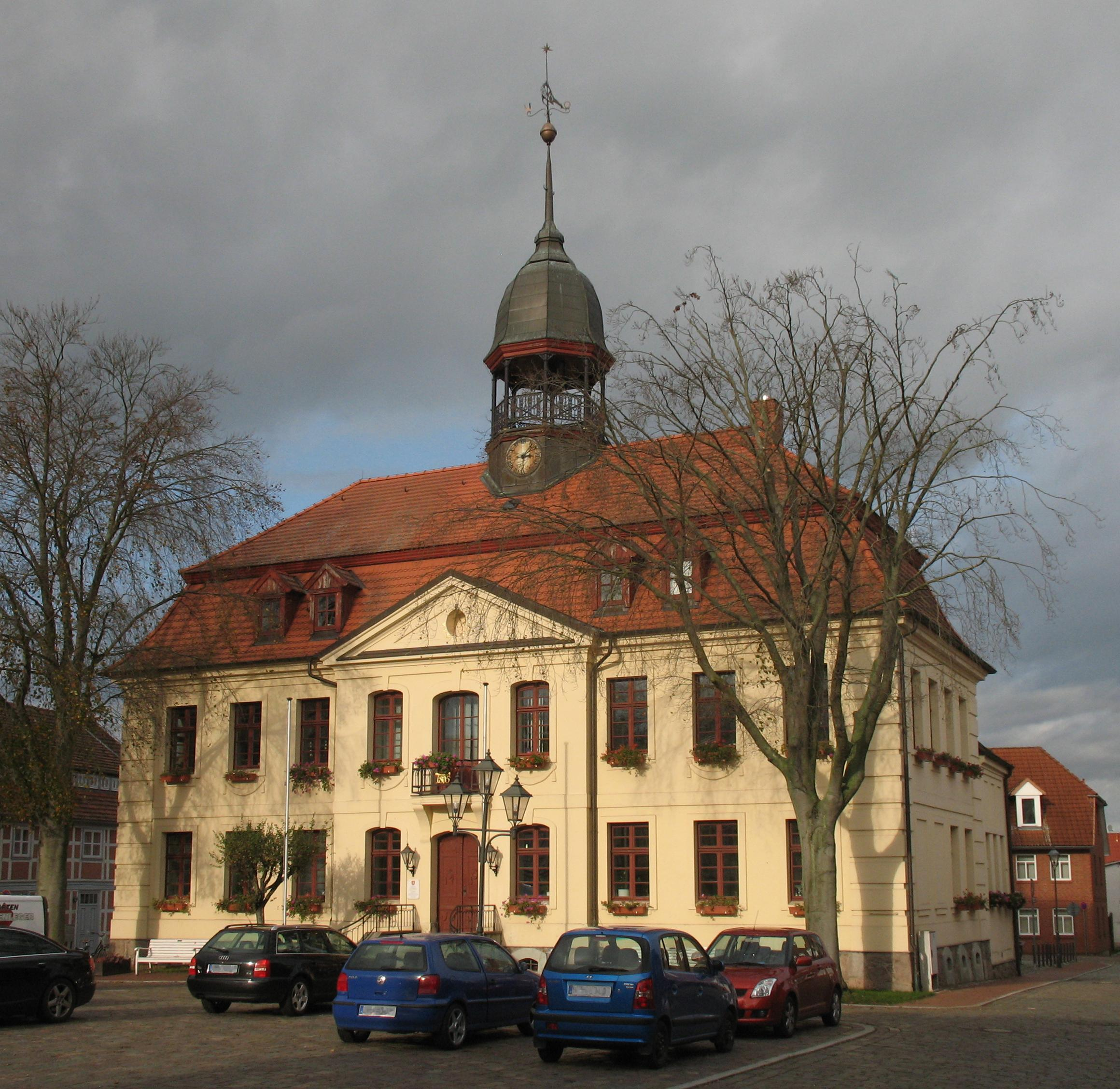 Town hall in Neustadt-Glewe in Mecklenburg-Western Pomerania, Germany